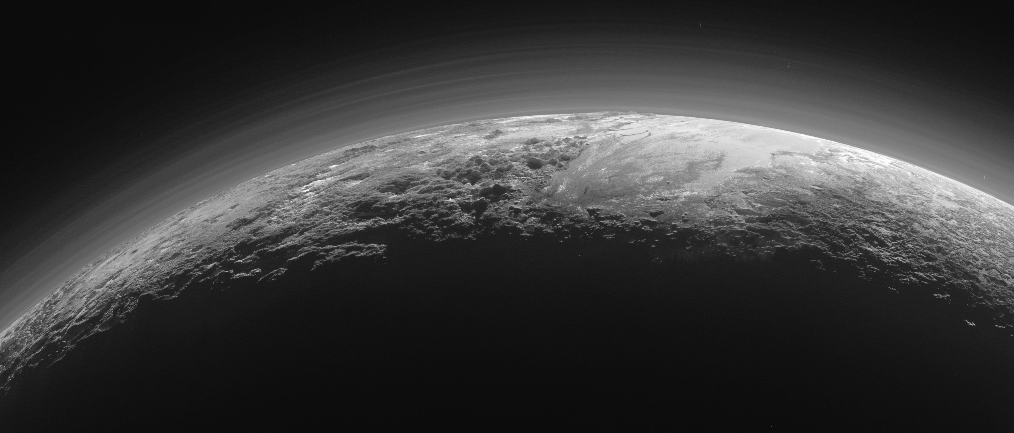 Original caption: Pluto’s Majestic Mountains, Frozen Plains and Foggy Hazes: Just 15 minutes after its closest approach to Pluto on July 14, 2015, NASA’s New Horizons spacecraft looked back toward the sun and captured this near-sunset view of the rugged, icy mountains and flat ice plains extending to Pluto’s horizon. The smooth expanse of the informally named icy plain Sputnik Planum (right) is flanked to the west (left) by rugged mountains up to 11,000 feet (3,500 meters) high, including the informally named Norgay Montes in the foreground and Hillary Montes on the skyline. To the right, east of Sputnik, rougher terrain is cut by apparent glaciers. The backlighting highlights over a dozen layers of haze in Pluto’s tenuous but distended atmosphere. The image was taken from a distance of 11,000 miles (18,000 kilometers) to Pluto; the scene is 780 miles (1,250 kilometers) wide.